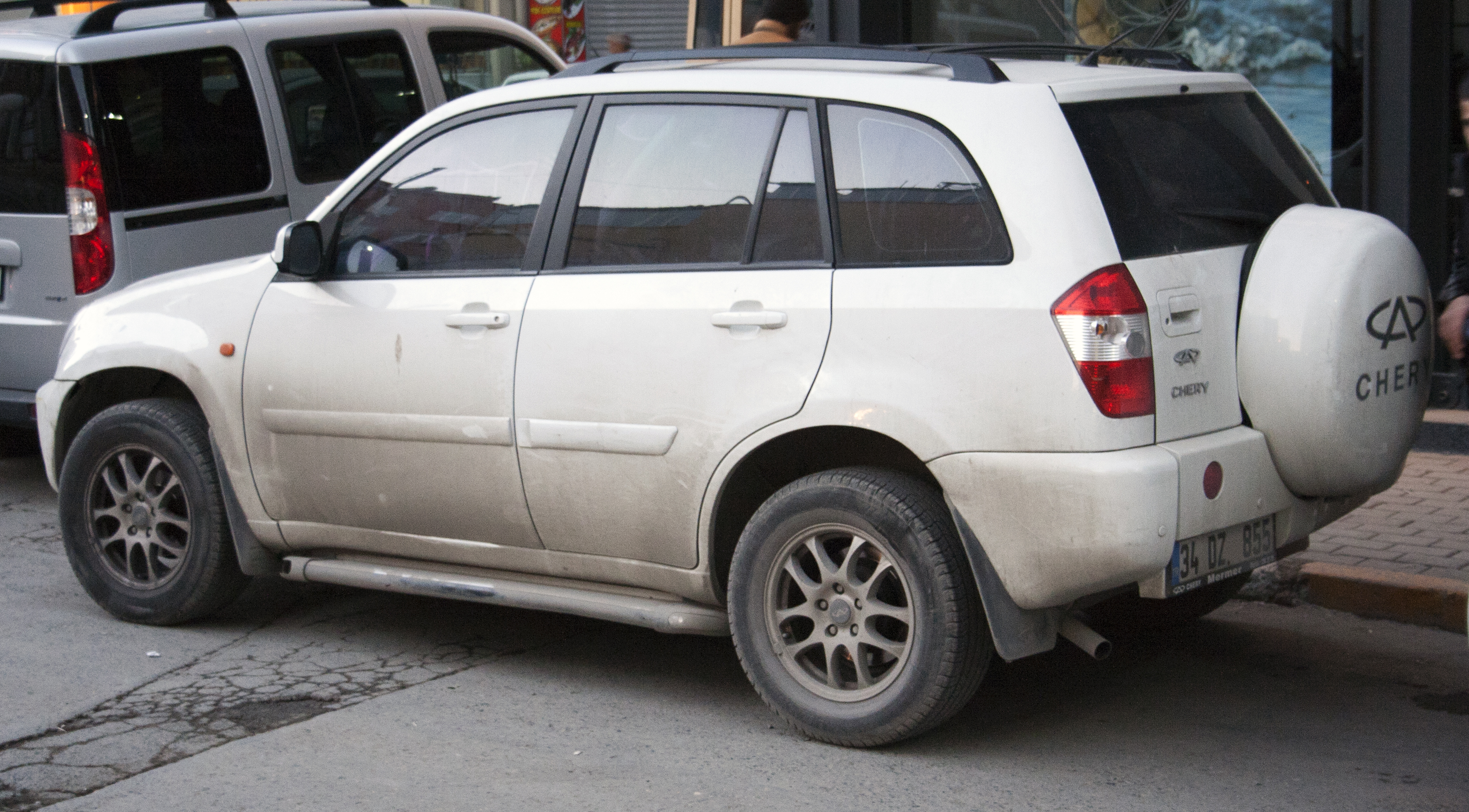 Chery Tiggo SUV in Istanbul.